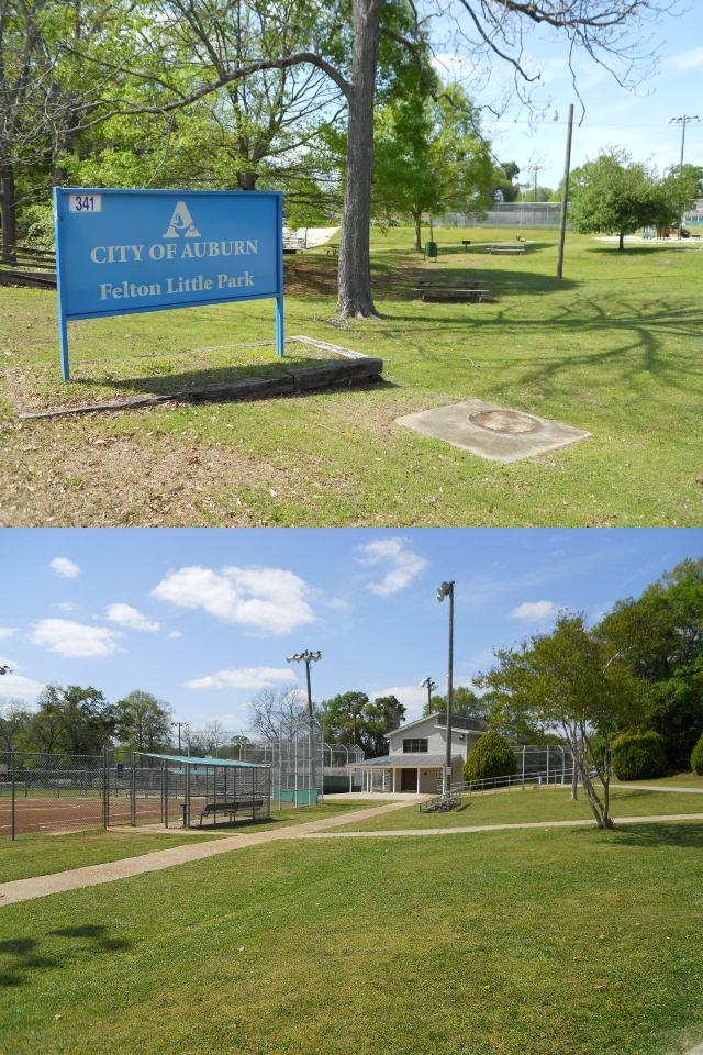 This is a photograph of Felton Little Park in Auburn, Alabama.